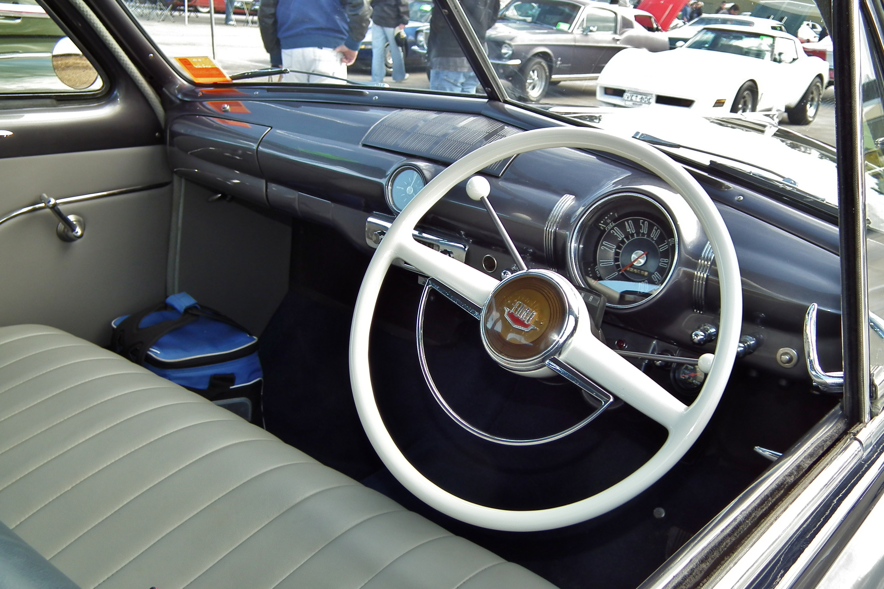 1949 Ford Tudor V8 sedan interior. Taken at Shannon's Eastern Creek Classic 2011, held at Eastern Creek Raceway Sydney.